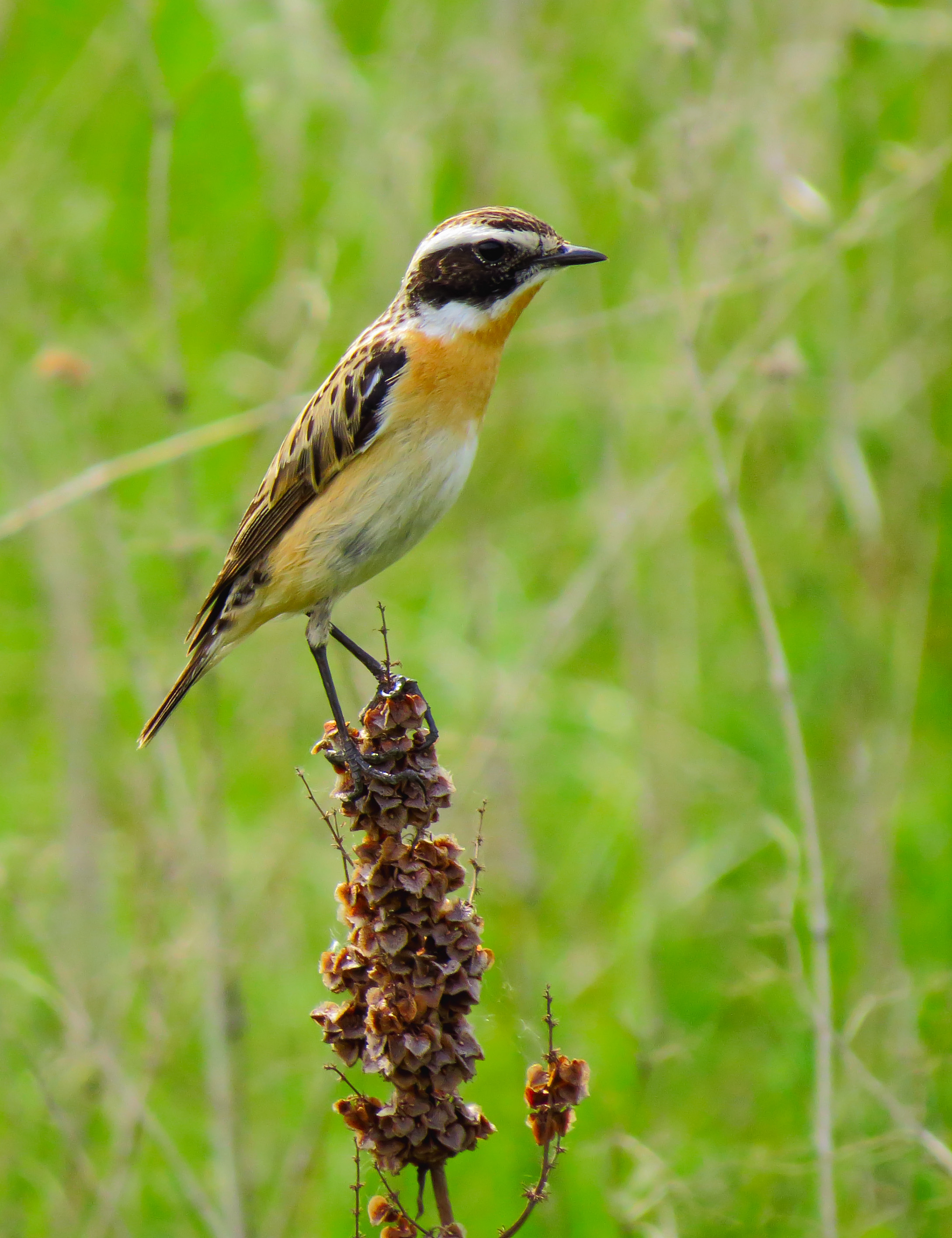 Saxicola rubetra in the Desna river floodplain near Zazymya, Brovary raion, Kiev oblast, Ukraine